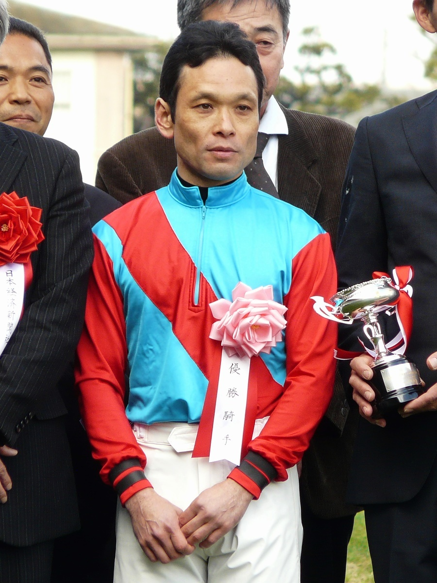 Teruo-Eda20120325